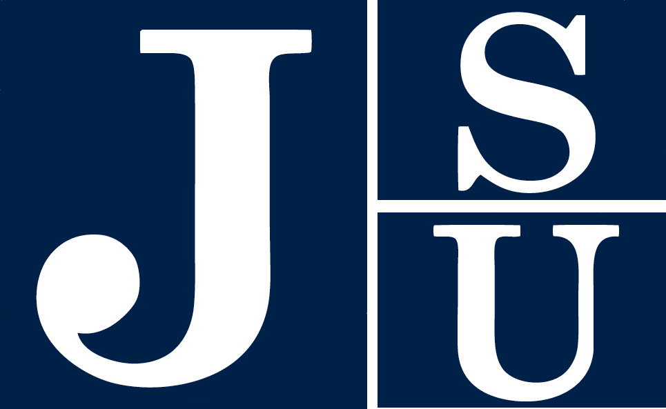 Logo for the Jackson State University Athletics Department.